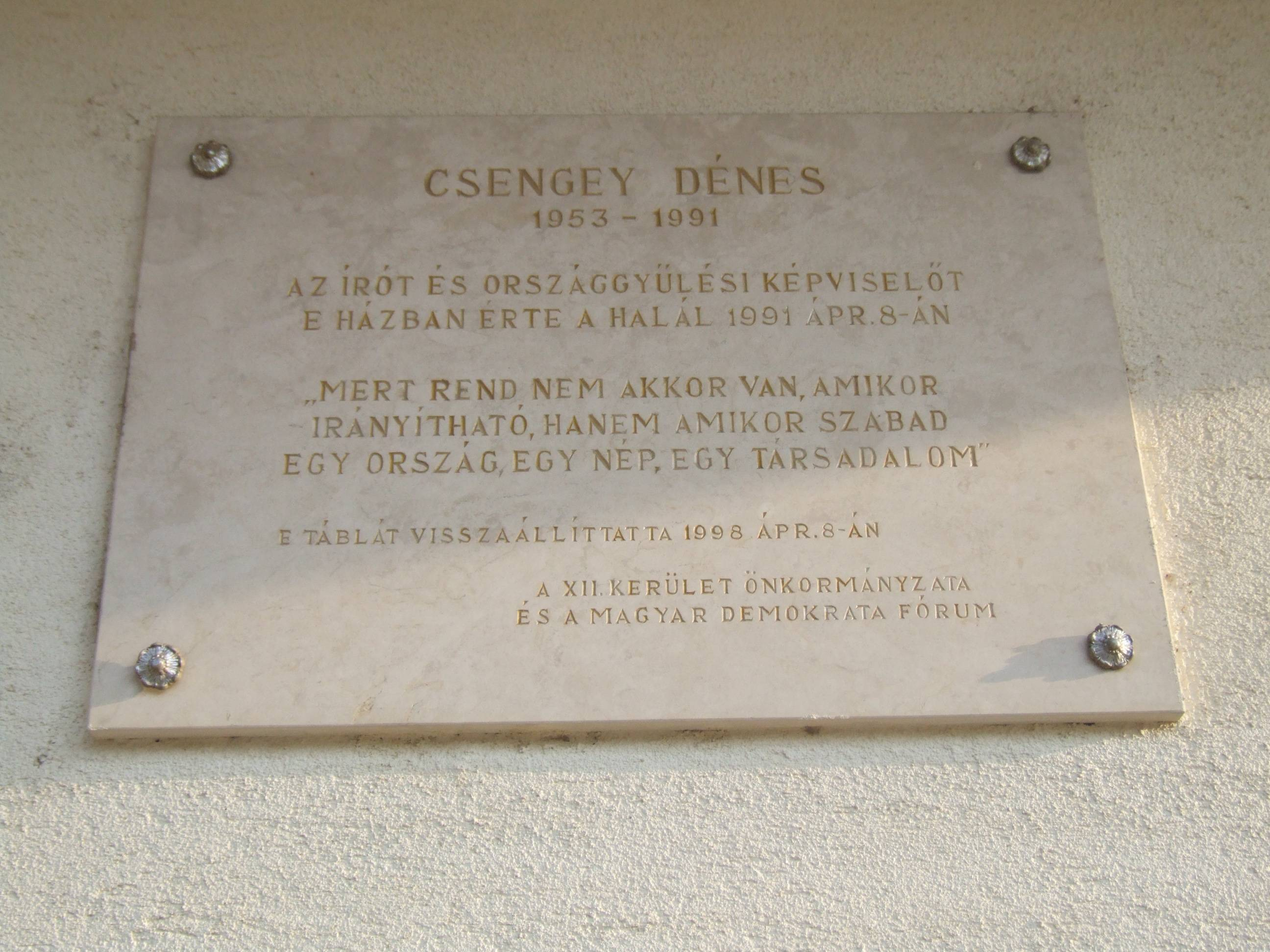 Dénes Csengey commemorative plaque in Budapest District XII, Németvölgyi Street No 20.